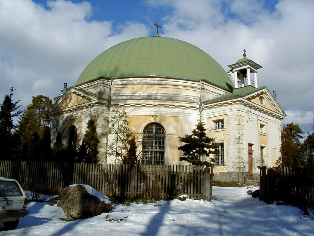 Katlakalns Lutheran Church